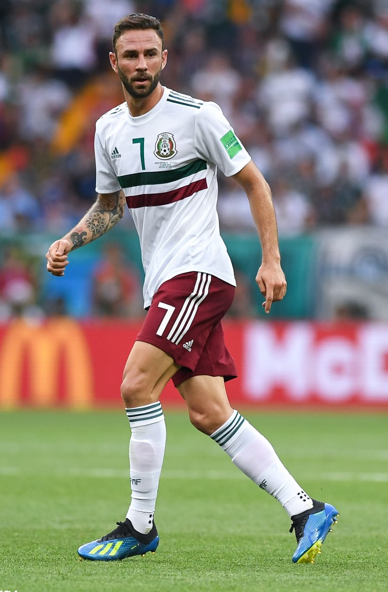 Miguel Layún